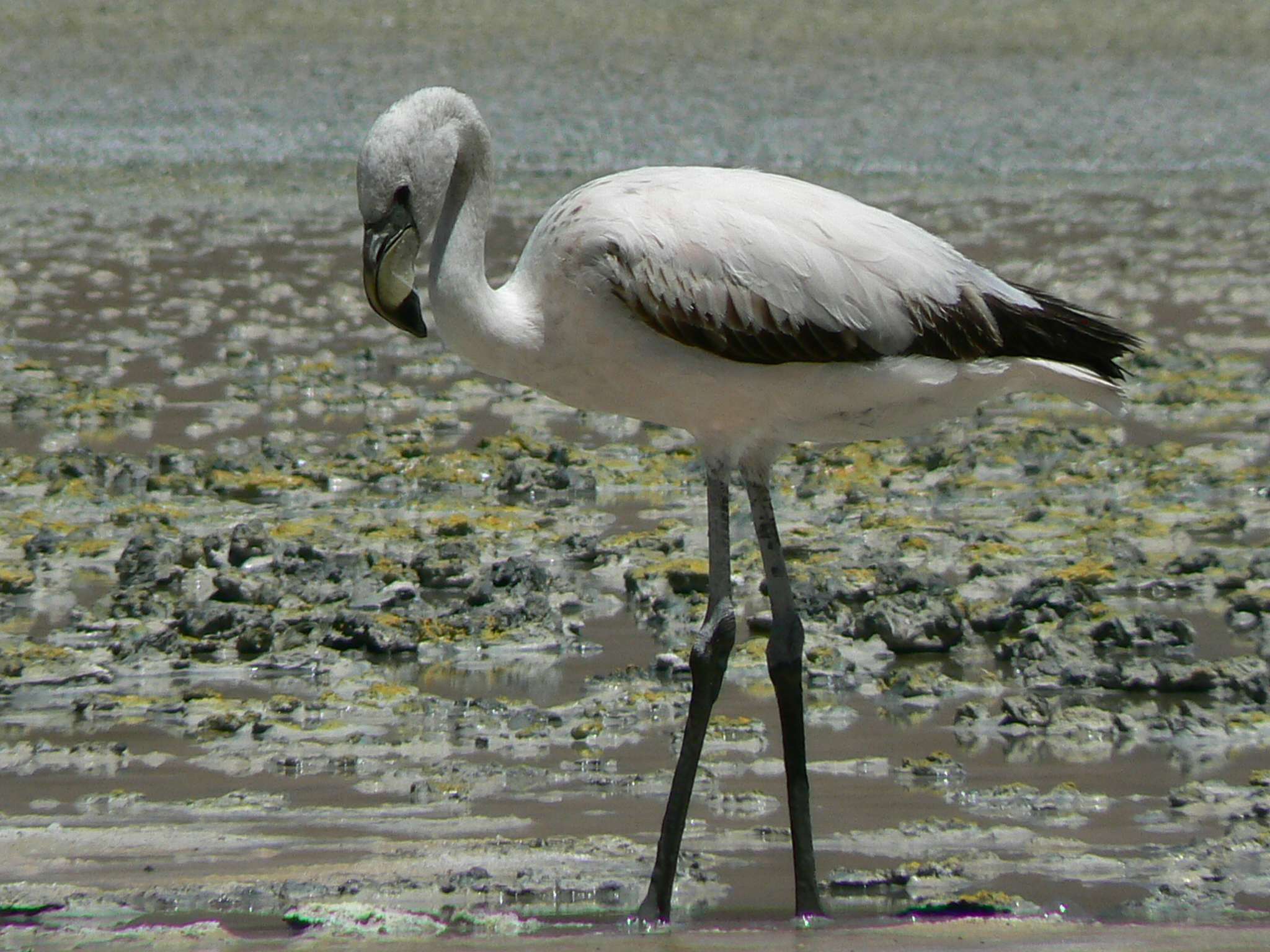 James's Flamingo (also known as the Puna Flamingo) at Laguna Cañapa, a lake in the Potosí Department, Bolivia.